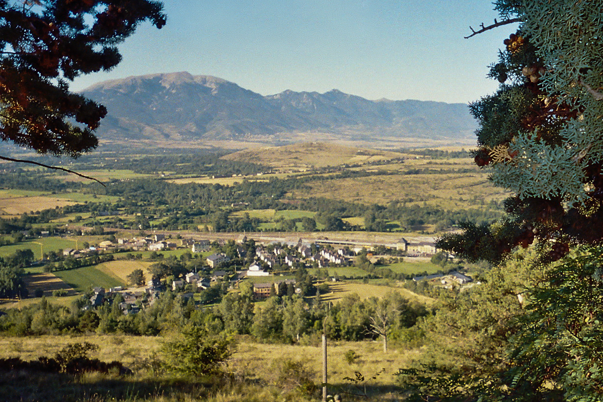 The French village of Enveitg in Pyrénées-Orientales (French Eastern Pyrenees) close to Spain (background).